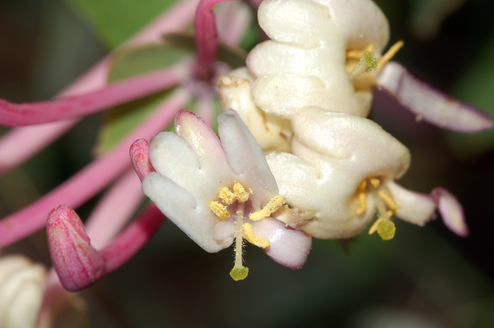 cf. Lonicera implexa, Bedarieux Orb, Languedoc-Roussillon, France